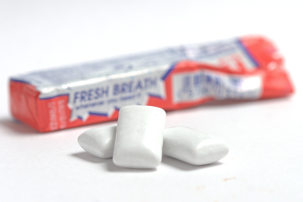 Stimorol Original Chewing Gum